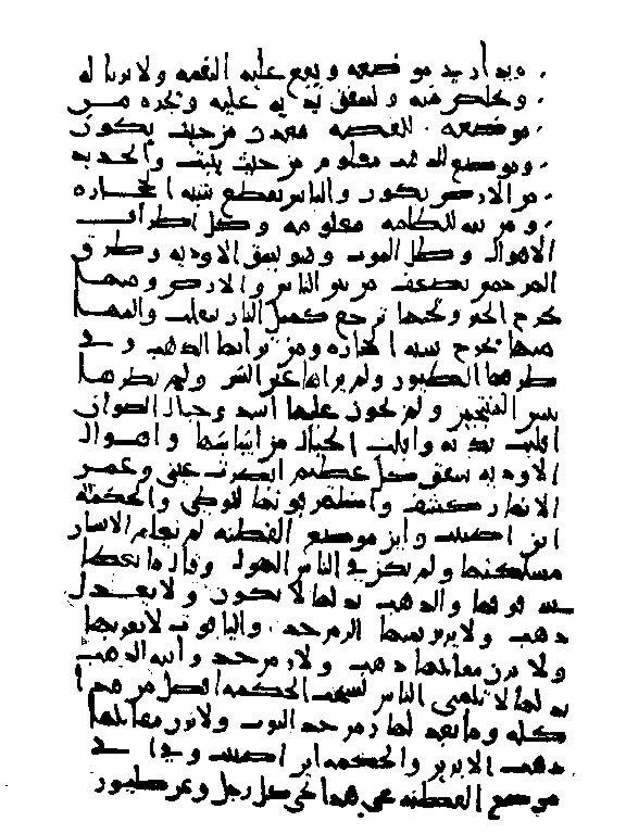 A portion of an Arabic translation of Job (28:1-21), British Library Add. MS. 26,116, dated to 9th century AD. The script is called Nashi.